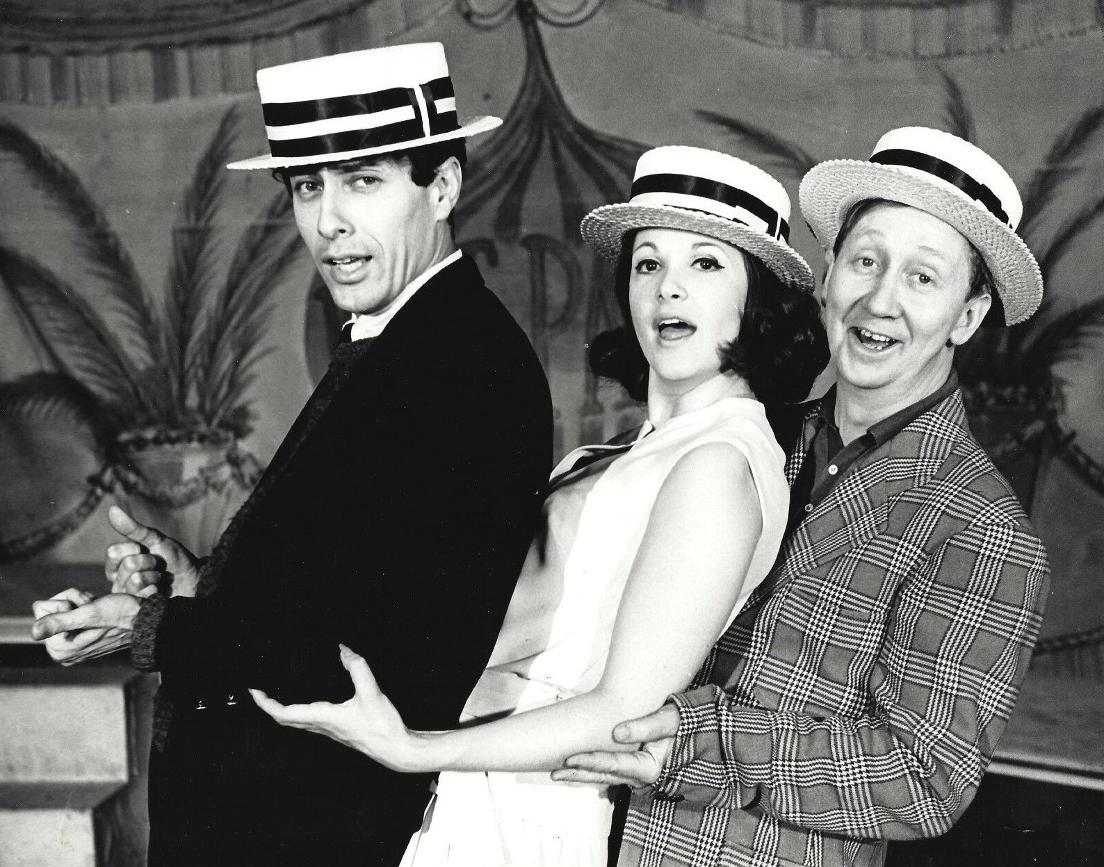 L. to R. : Paul Sand, Linda Lavin & Bill McCutcheon in the Off-Broadway's revue Wet Paint - publicity still (cropped)